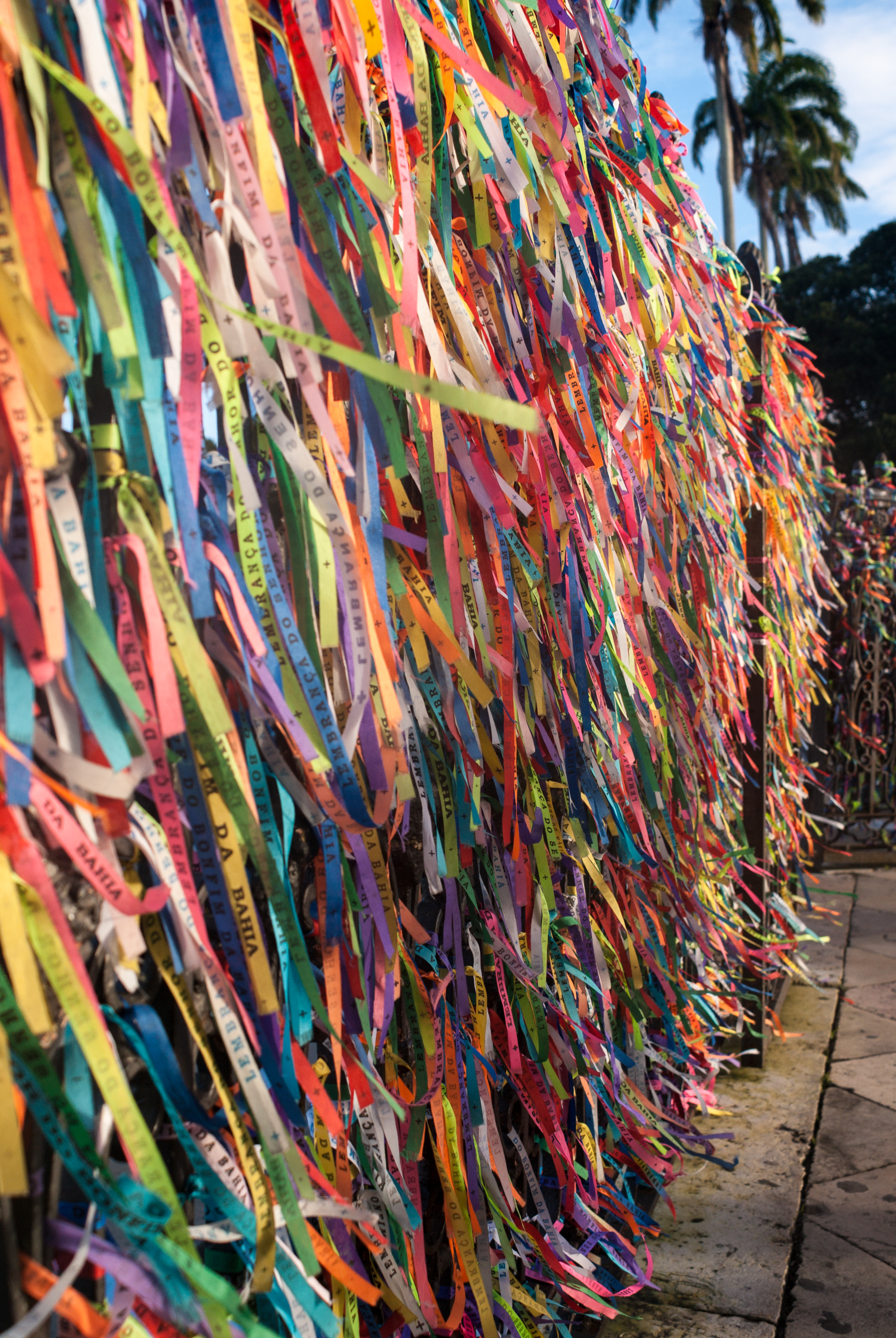 Fitas de Bonfim at Bonfim church, Salvador, Brazil